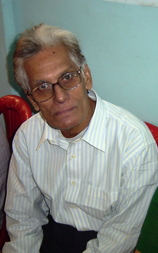 Samir Roy Chowdhury at a family function